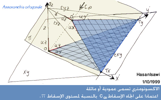 when the center of projection C is a point at infinity, l `axonometric axonometric can be classified into orthogonal or oblique depending on whether the direction of the center C is oblique or perpendicular to the plane of projection π